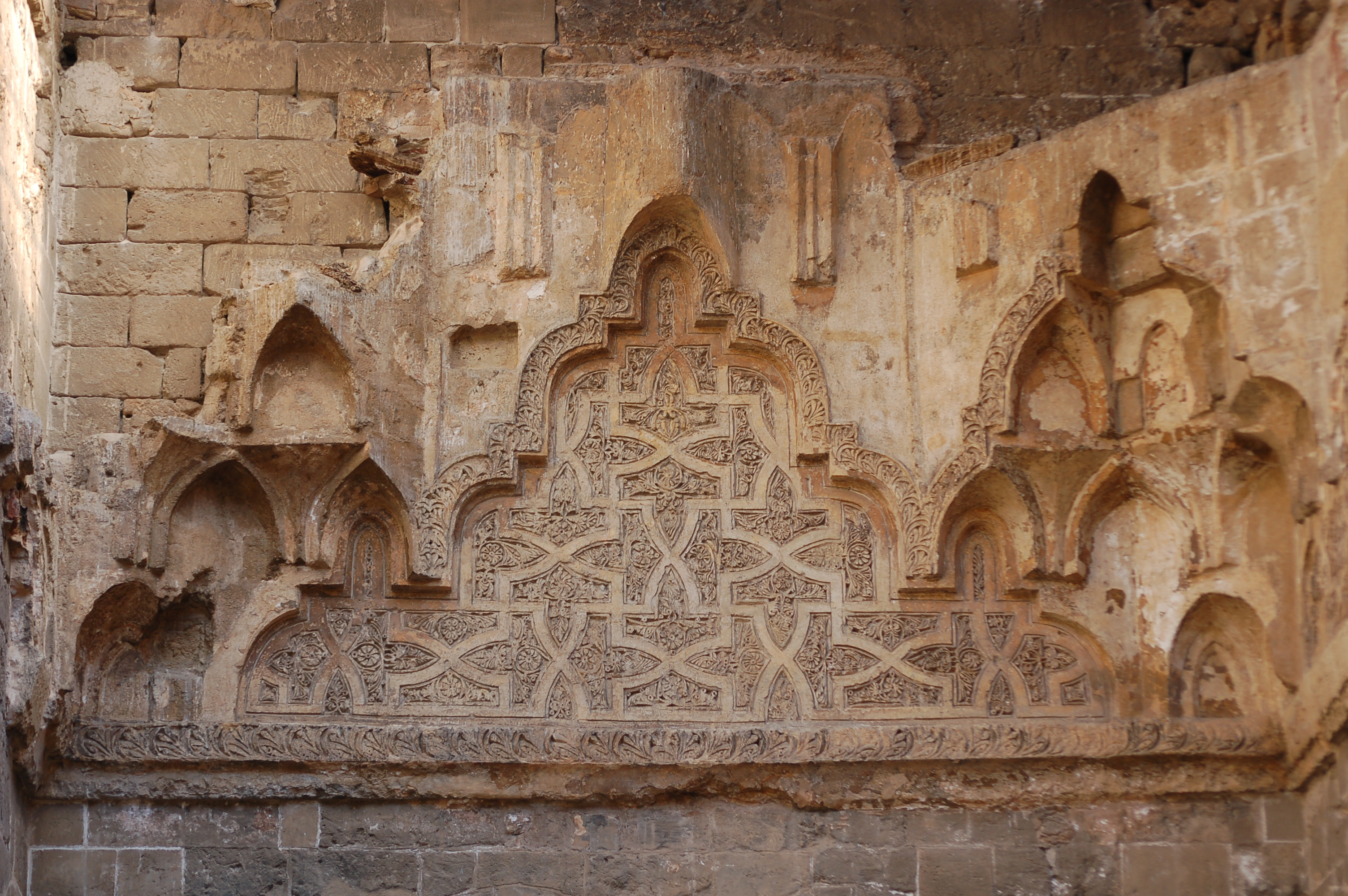 Muqarna in the hall of the Cuba palace in Palermo, Italy